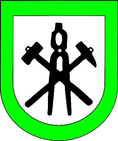 Coat-of-arms of Holoubkov municipality, Rokycany District, Pilsen Region, Czech Republic.